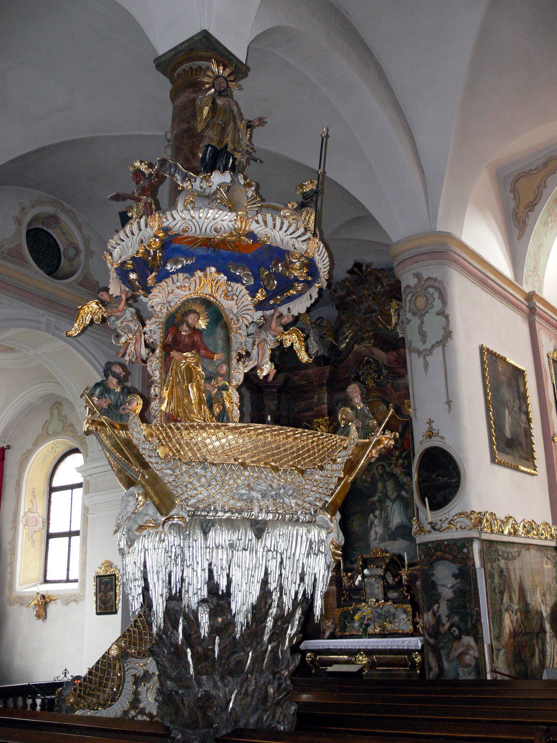 Traunkirchen - parish church Coronation of Mary: "Fishers´s pulpit"(1753) showing Saint Peter´s miraculous fishing.